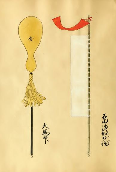 R: Banner (white ground with vermilion pendant); L: Large Battle Standard (gold gourd)